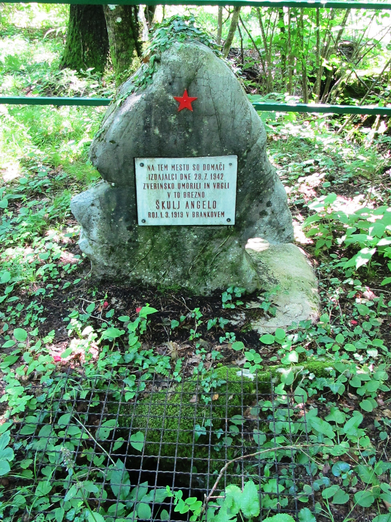 Memorial to Angela Škulj southwest of Logarji, Municipality of Velike Lašče, Slovenia. BACKGROUND: Angela Škulj was the girlfriend of Jože Bavdek from Kaplanovo. On 23 July 1942 Bavdek led a group of Partisans in an attack on the Gruden farm, murdering most of the family and plundering their property. On 24 July Italian forces burned the Bavdek farm and shot Jože Bavdek while he fled from them. Bavdek was erroneously portrayed by the communists as the first victim of the White Guard in the Veliko Lašče area (there were no White Guard units in the area at the time). Angela Škulj threatened revenge against her boyfriend’s killers and in turn was shot by village guard units and her body was thrown into a karst shaft. (Sources: Zaveza no. 63, 24 June 2011; Strle, Franci. 1980. Tomšičeva brigada: Uvodni del. Ljubljana: Partizanska knjiga, p. 273.)